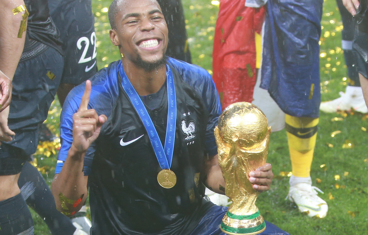 French footballer Djibril Sidibé holding the FIFA World Cup Trophy after the tournament's final match on 15 July 2018.